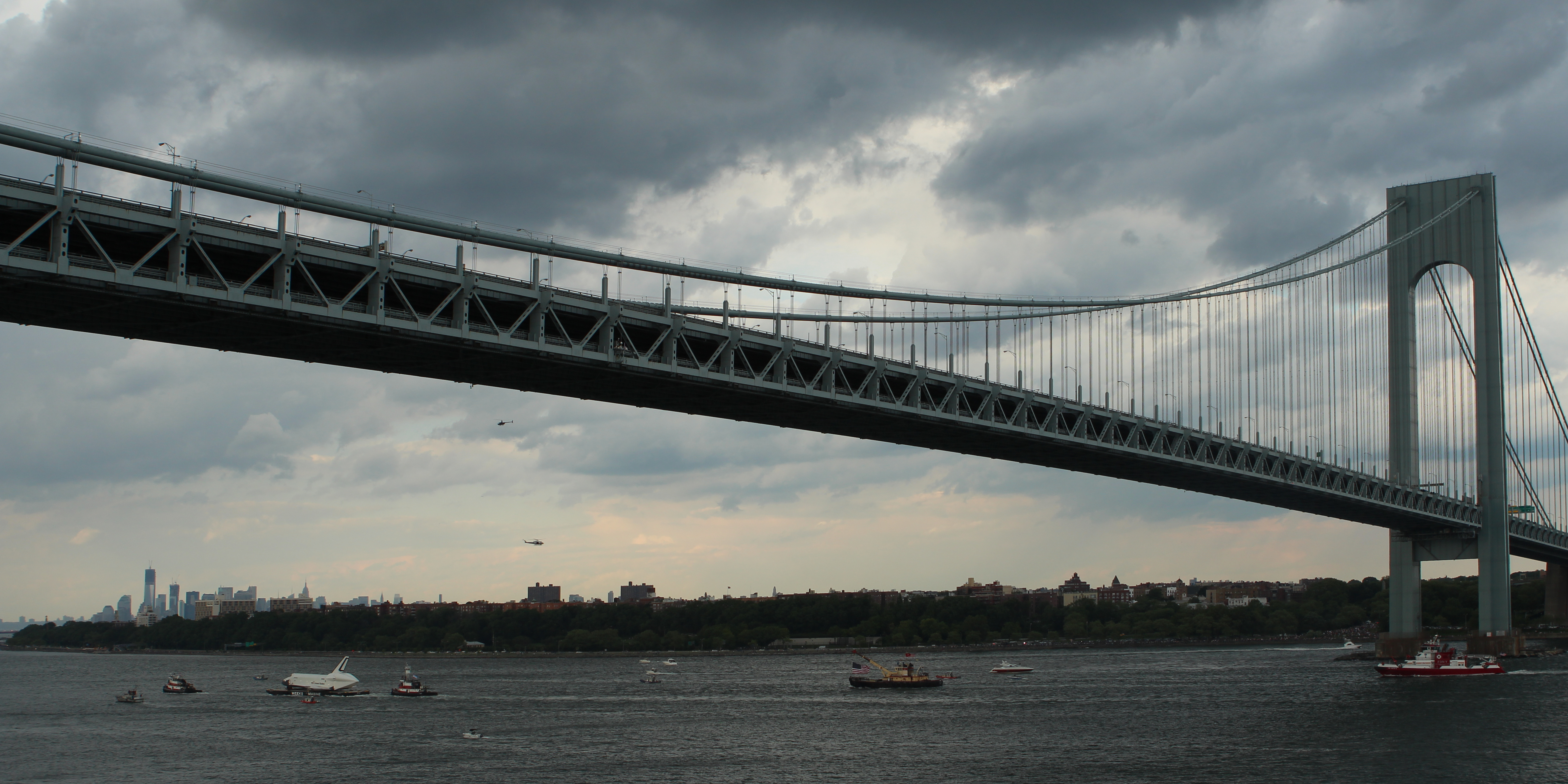 Space Shuttle Enterprise being transported on a barge underneath the Verrazano-Narrows Bridge on its way to the Intrepid Sea, Air & Space Museum.